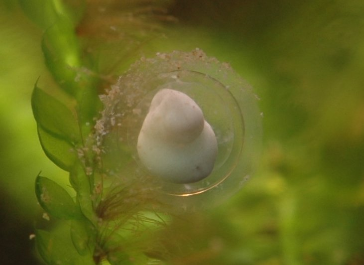 5-day-old Neurergus kaiseri egg. Picture taken in captivity, in France.